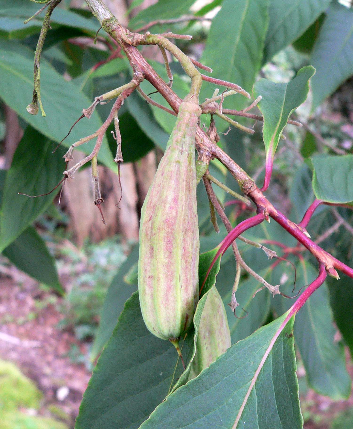 Photo of Rehderodendron macrocarpum fruit at the UBC Botanical Garden in Vancouver